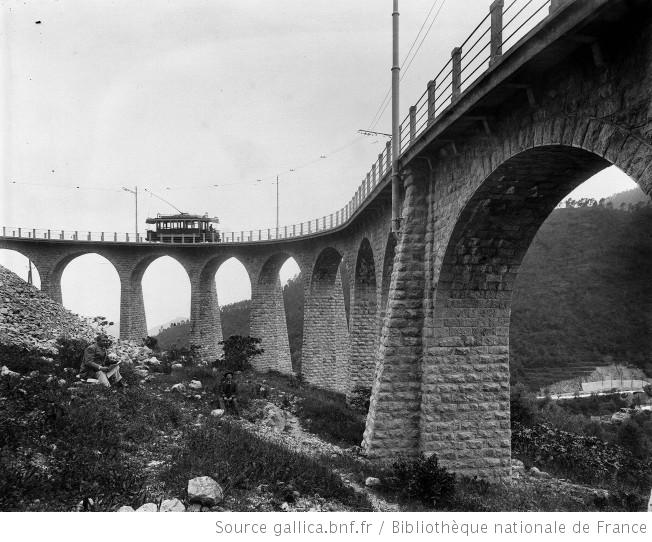 The viaduc du Caramel (U shaped) of the former tramway line between Menton à Sospel (Alpes-Maritimes, France).